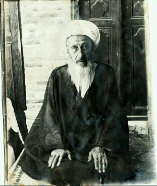 Grand Ayatollah Mirza Naini